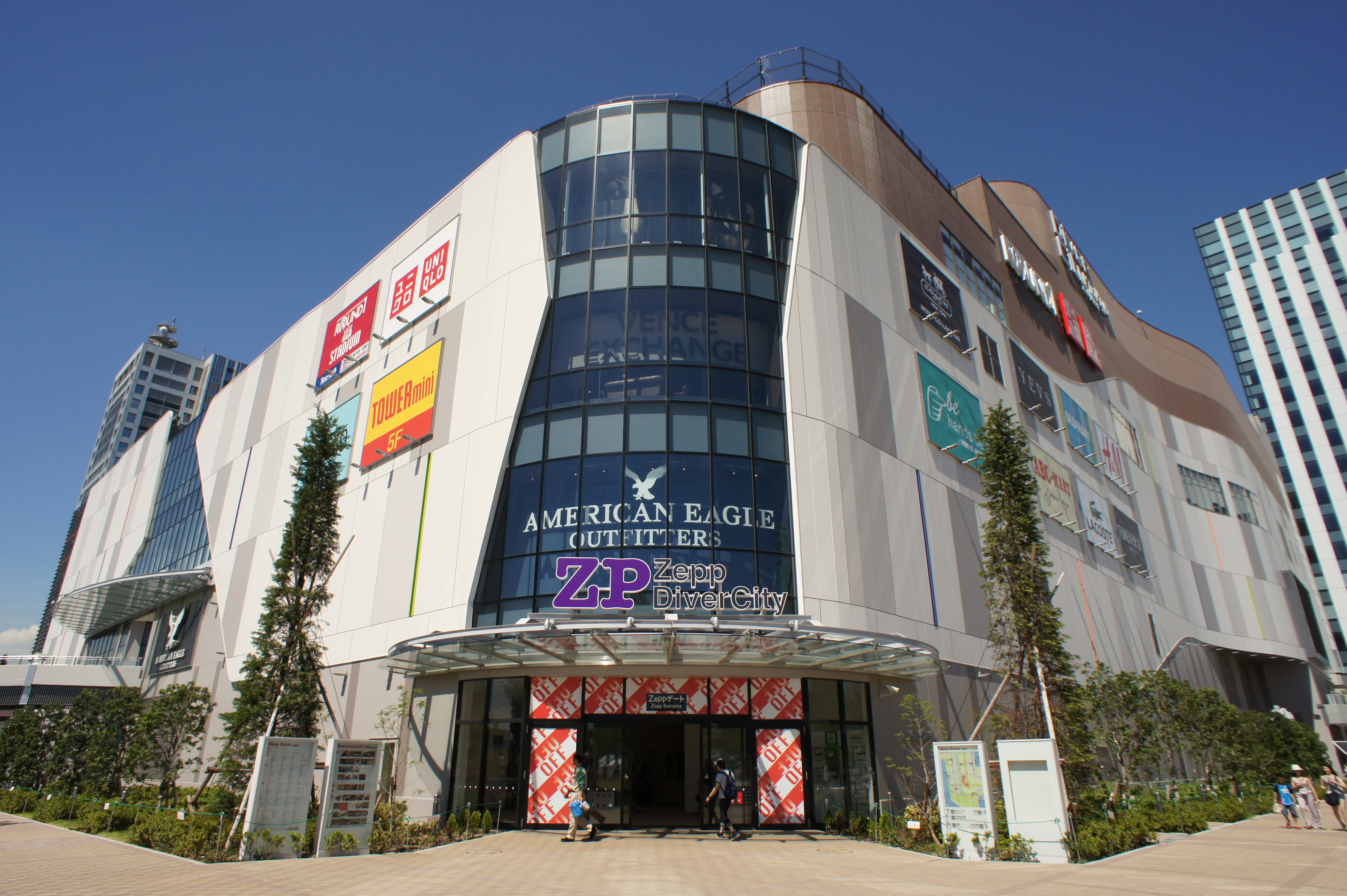 Zepp DiverCity (TOKYO), 1-1-10 Aomi Koto-ku Tokyo Japan.